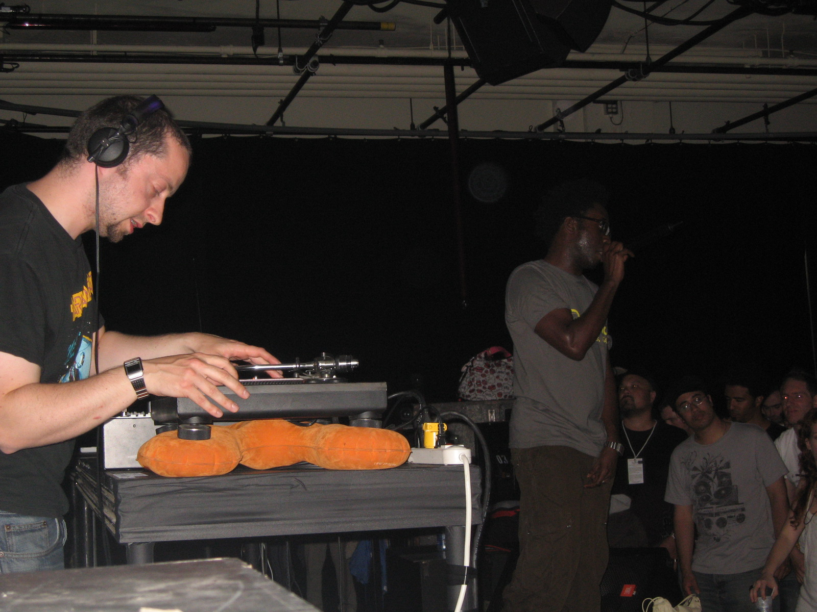 Kode9 and the Spaceape at MUTEK. This was created by flickr user basic_sounds. It was found here.